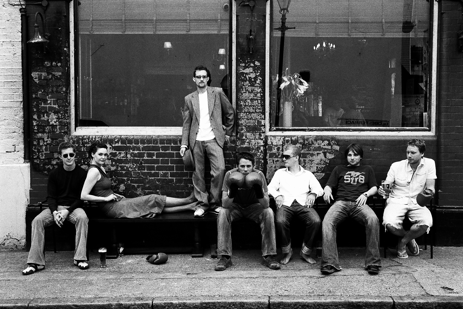 A photo of London-based band Bussetti, taken in 2004 outside the Florist pub in Bethnal Green